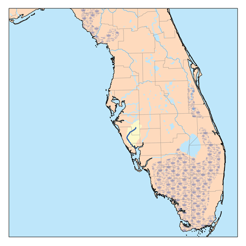 This is a map of the Myakka River watershed. I, Karl Musser, created it based on USGS data.